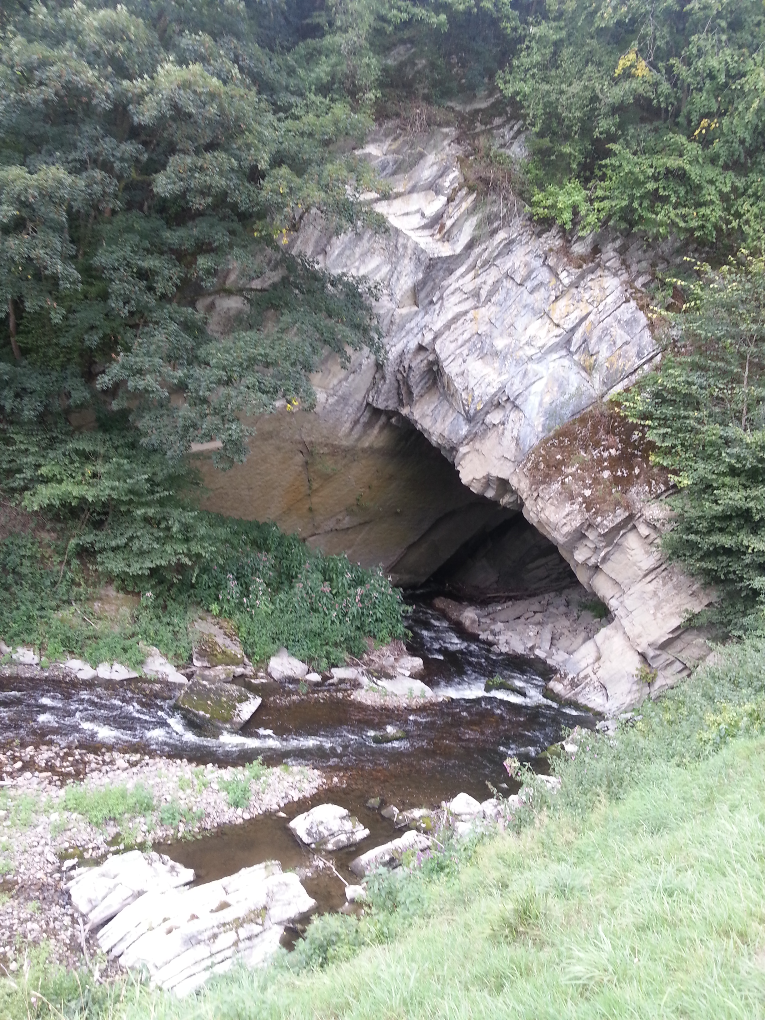 han-sur-less cave and river